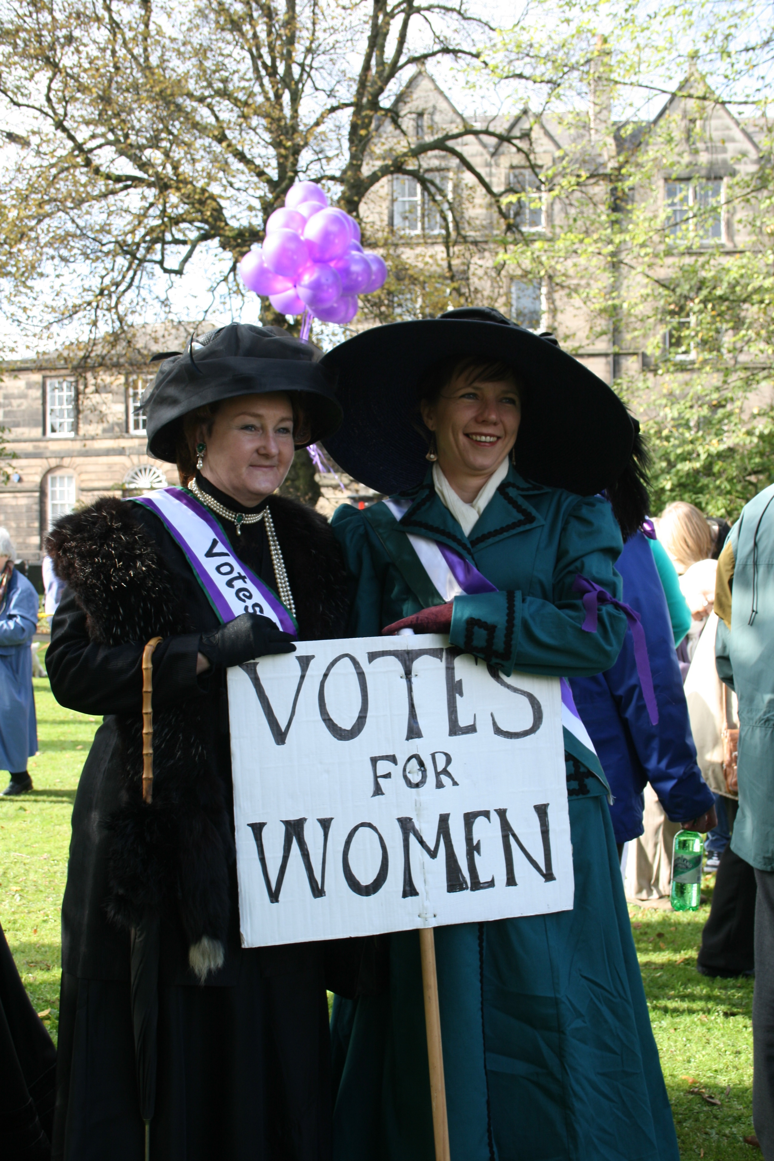 to commemorate the centenary of Suffragette Procession held in 1909 - route from Bruntsfield Links to Calton Hill, Edinburgh